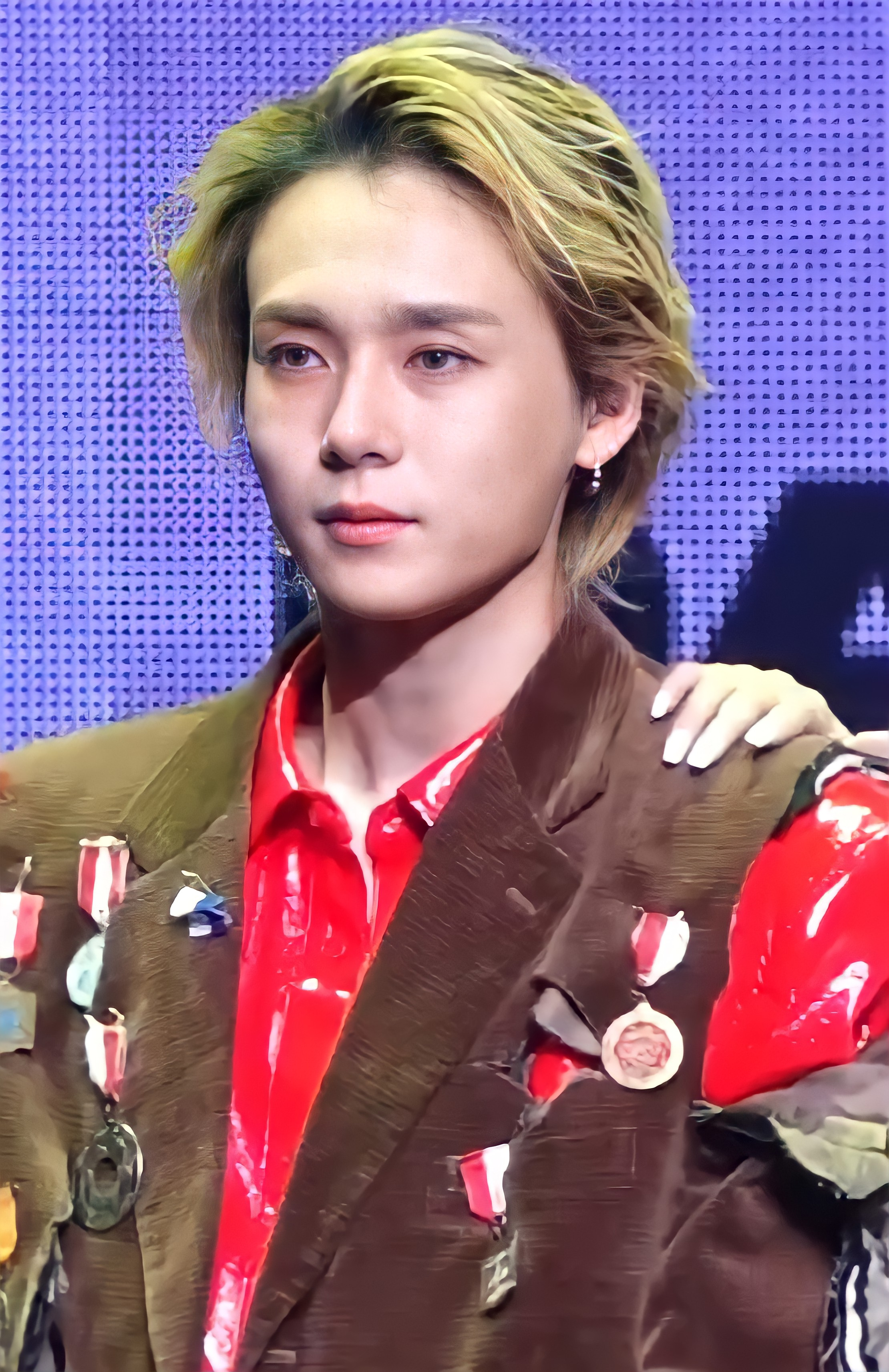 Dawn at a showcase on November 5, 2019.